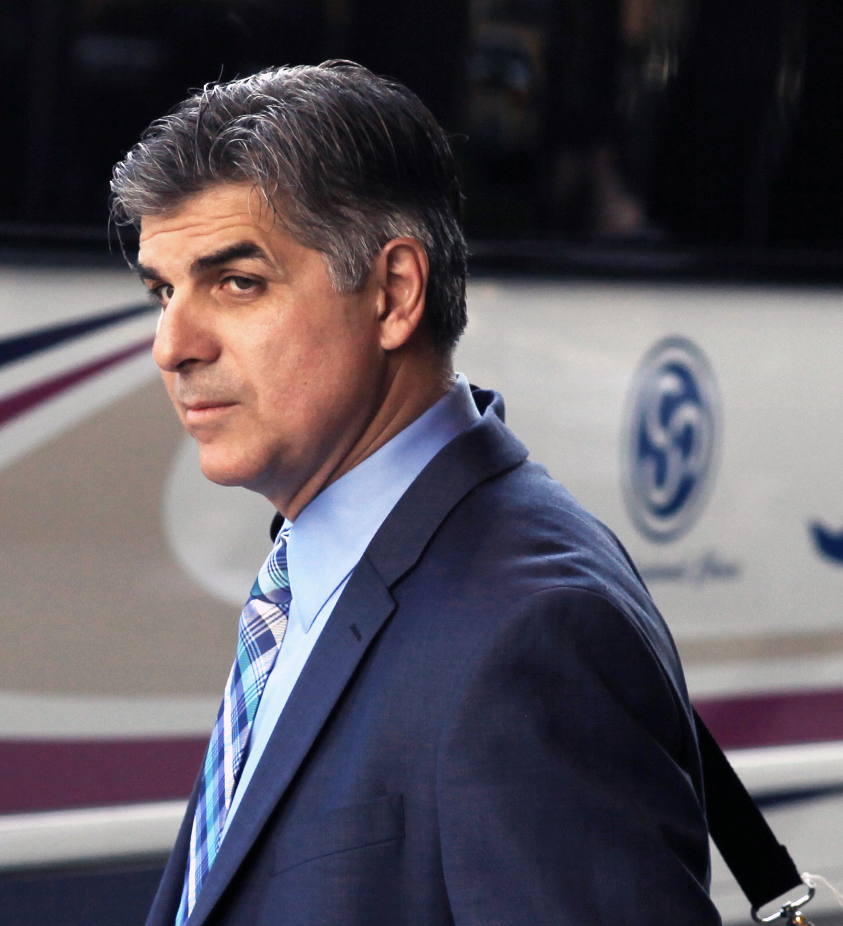 JJ Daigneault in May 2014.